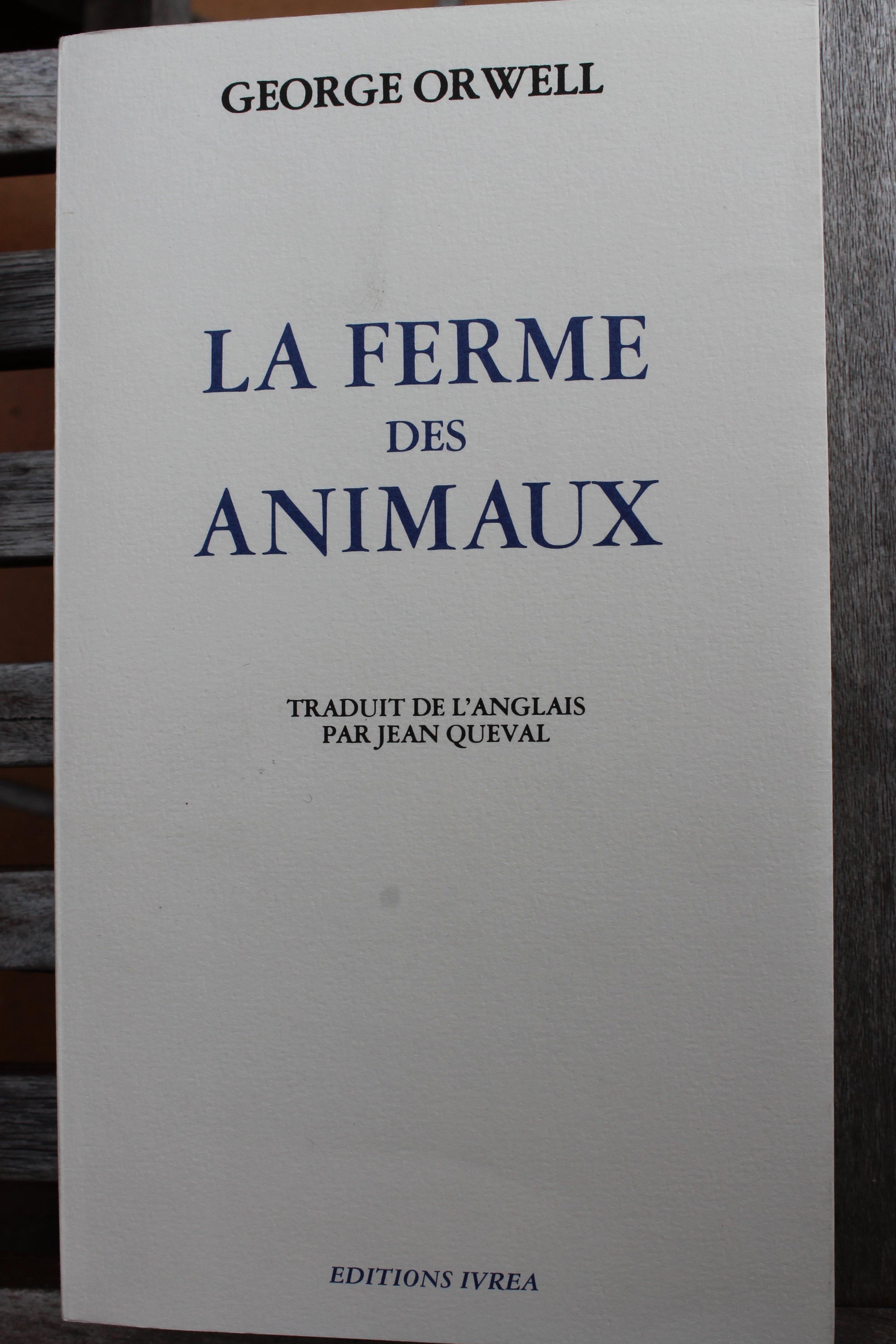 Orwell, La Ferme des animaux (Éditions Ivrea)